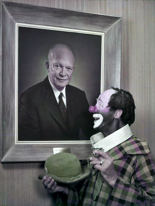 Ringling Circus clown Paul Jerome with hat off to a portrait of President Dwight Eisenhower.